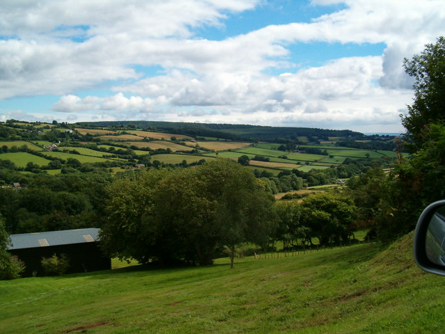 Looking east past Bullyhole Bottom. This is the valley of the Mounton Brook looking towards Itton Common